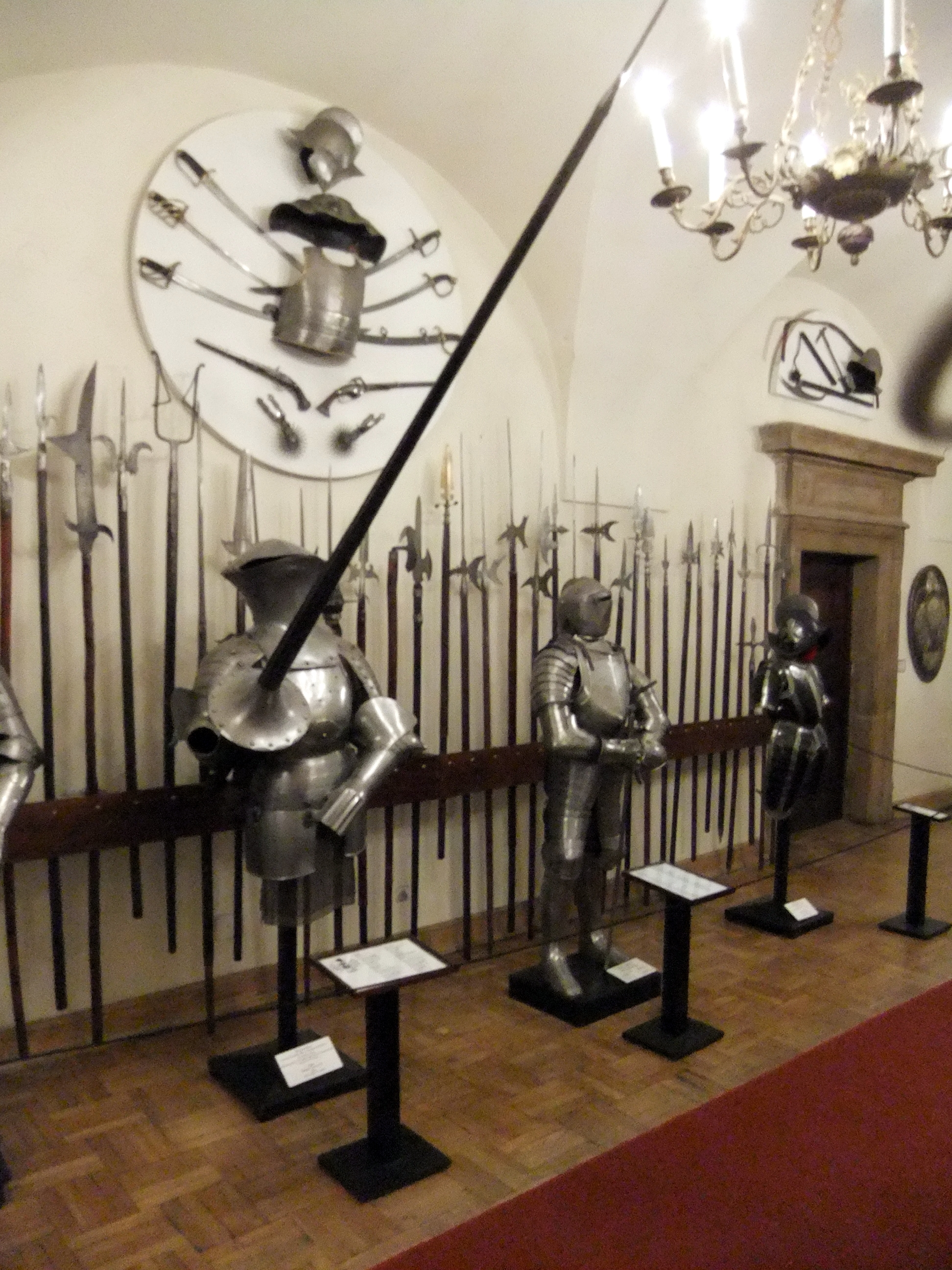 Exposition in Historical Museum in Kraków, Poland.